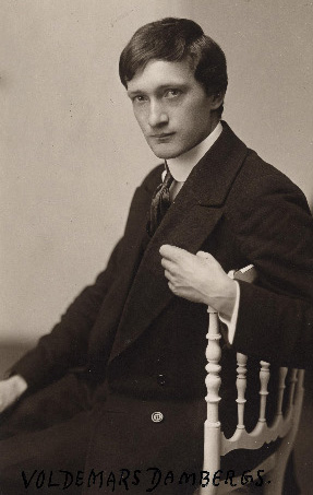 Latvian poet Valdemārs Dambergs (1886-1960)